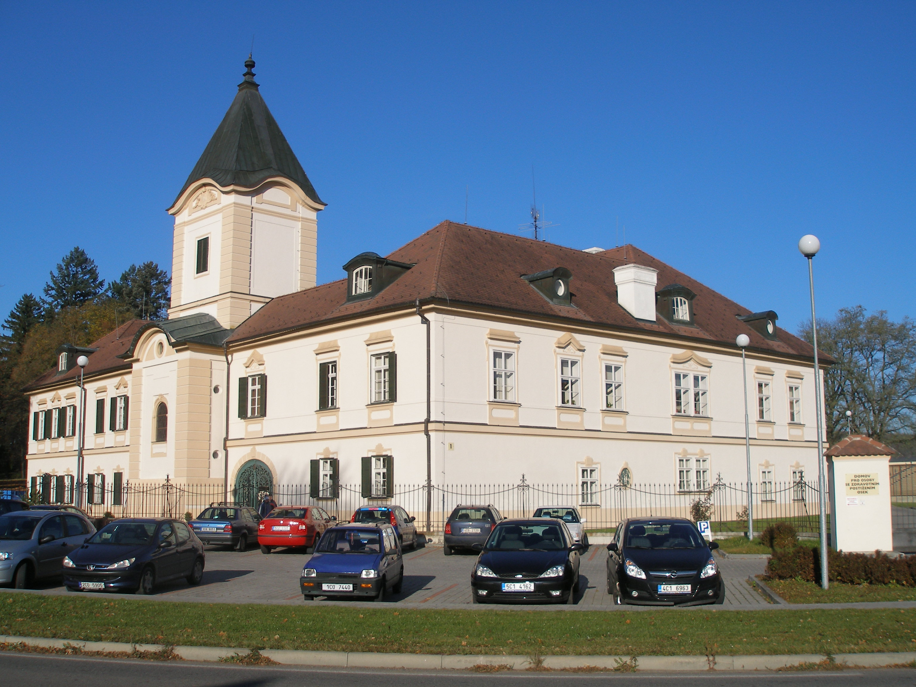 Mansion in Osek (Strakonice District)